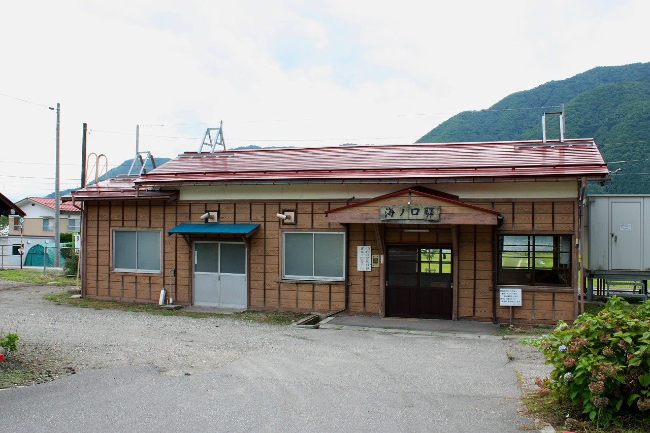 Uminokuchi Station in Ōmachi, Nagano Prefecture, Japan